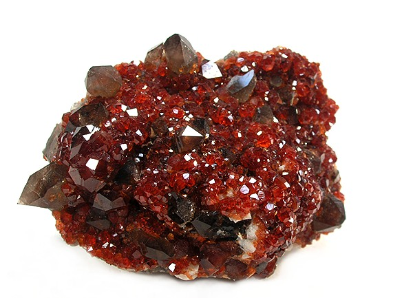 Quartz Locality: Lechang Mine, Lechang County, Shaoguan Prefecture, Guangdong Province, China (Locality at ) Size: small cabinet, 8.8 x 6.1 x 3.5 cm Garnet with Smoky Quartz (illustrated) We have all seen numerous garnets frm this location in recent years, but some are just so outstanding they rise above the crowd,. This piece, illustrated in teh China issue of ROCKS & MINERALS, is one such. It is really breathtaking in the quality of the color contrast; and the lustre and color are just top percentile. 8.8 x 6.1 x 3.5 cm